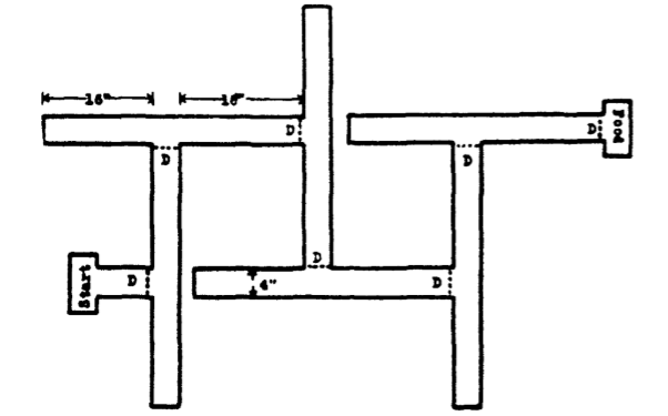 Image shows a type of labyrinth psychologist Tolman used for his experiments of cognitive maps in rats and men.